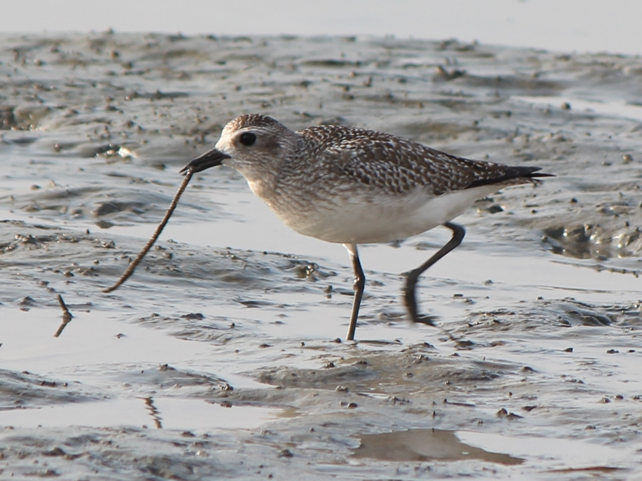 Pluvialis squatarola (Grey Plover), eating ragworm, winter plumage, in Japan.